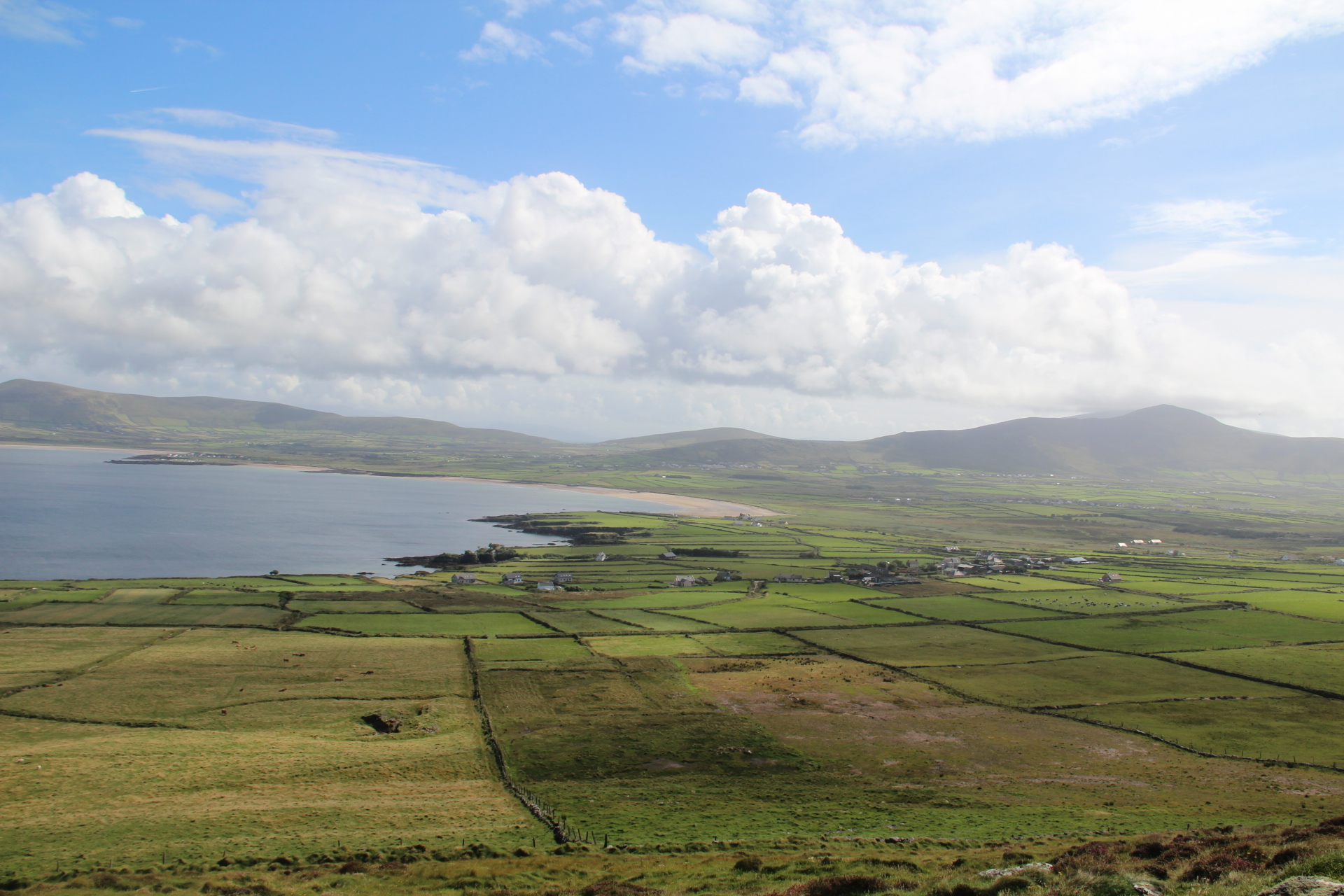 View over Ard na Caithne (with the bay in the background)